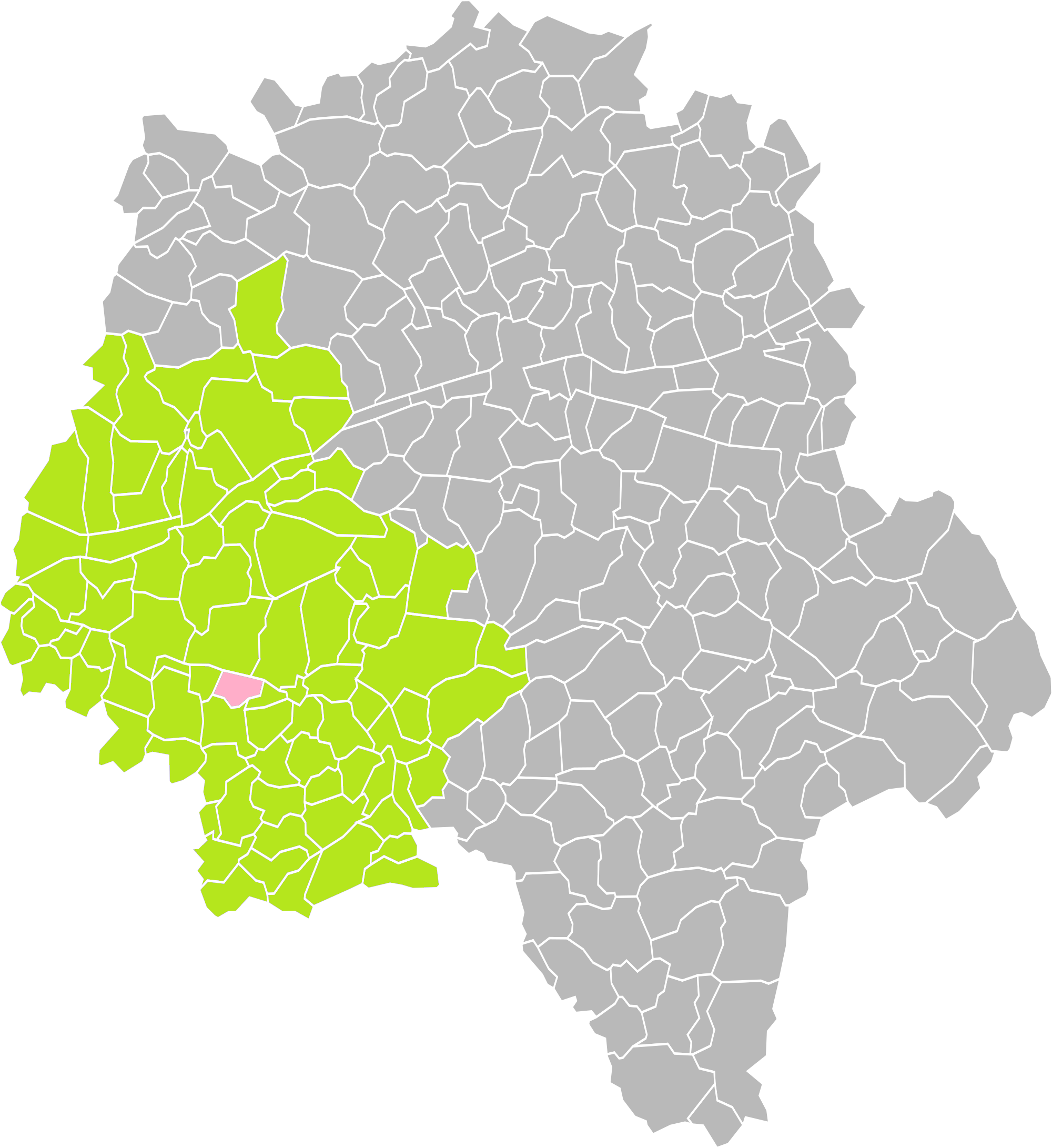 Location of the commune of Sazilly in the arrondissement of Chinon (Indre-et-Loire)